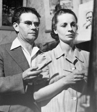 Saskatoon artist Ernest Lindner (1 May 1897 – 4 November 1988) and wife Bodil (then expecting their daughter Degen) viewing a painting she is working on.